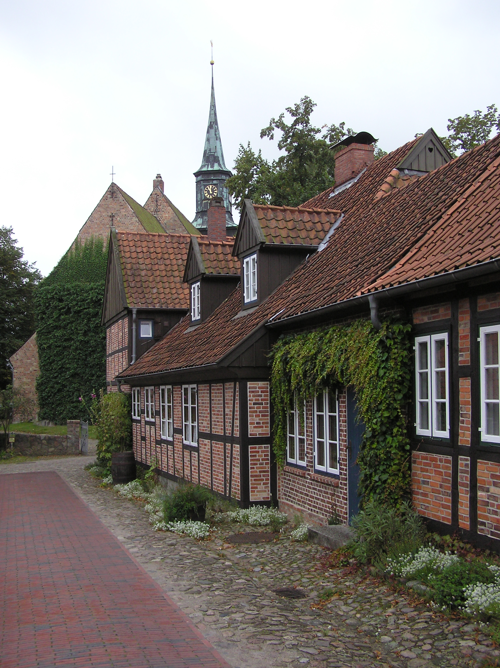 Kellinghusen, Schleswig-Holstein, Germany